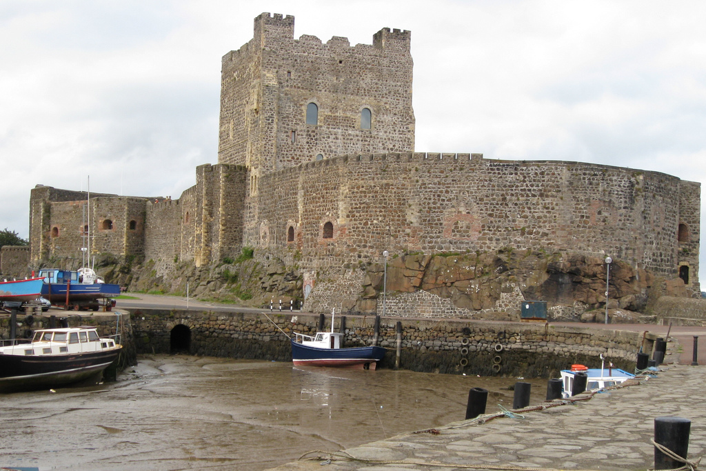 Carrickfergus Castle